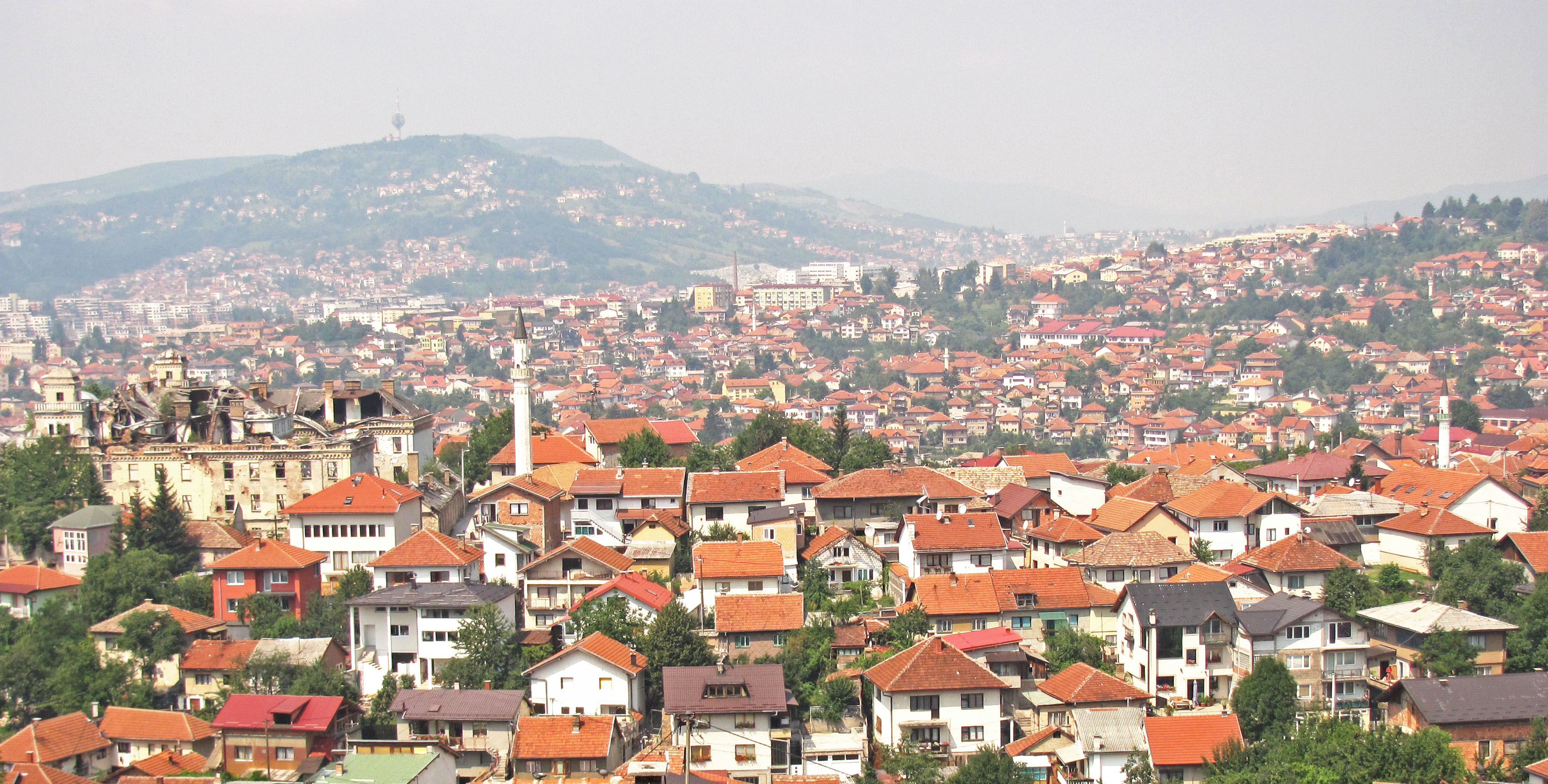 View in Sarajevo.